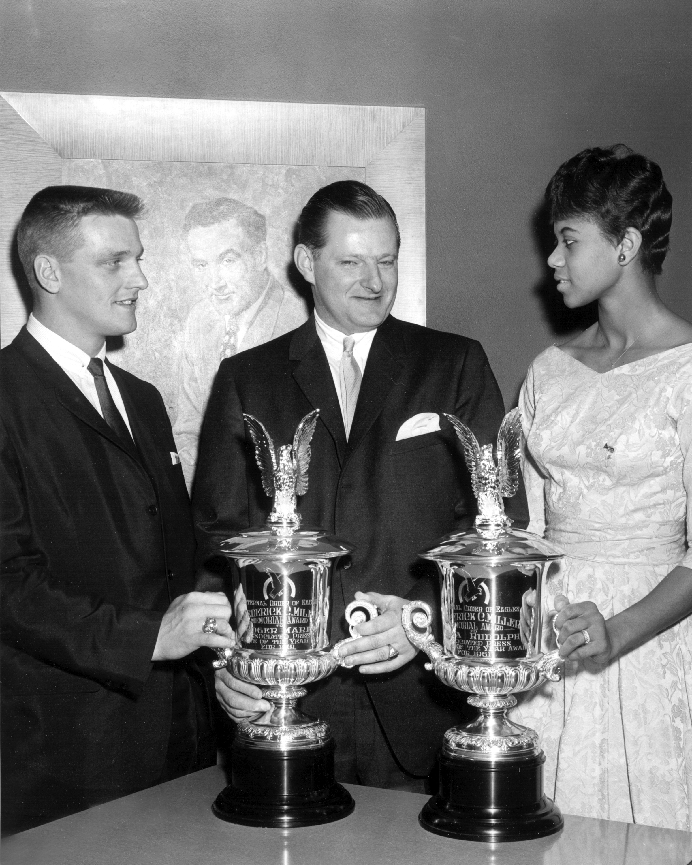 Wilma Rudolph (right) receiving the Fraternal Order of Eagles Award 1961 with Roger Maris (left).